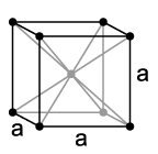 Cubic body centered lattice structure